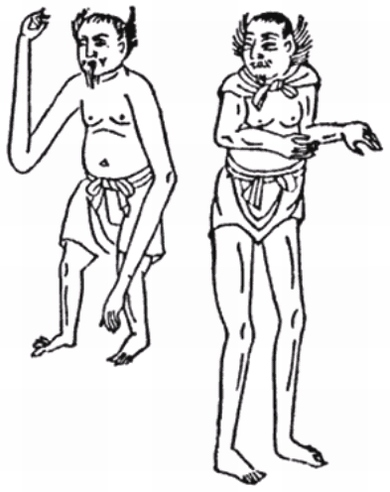 Ashinaga and Chouhi (長脚、長臂) from the Wakan Sansai Zue (和漢三才図会)